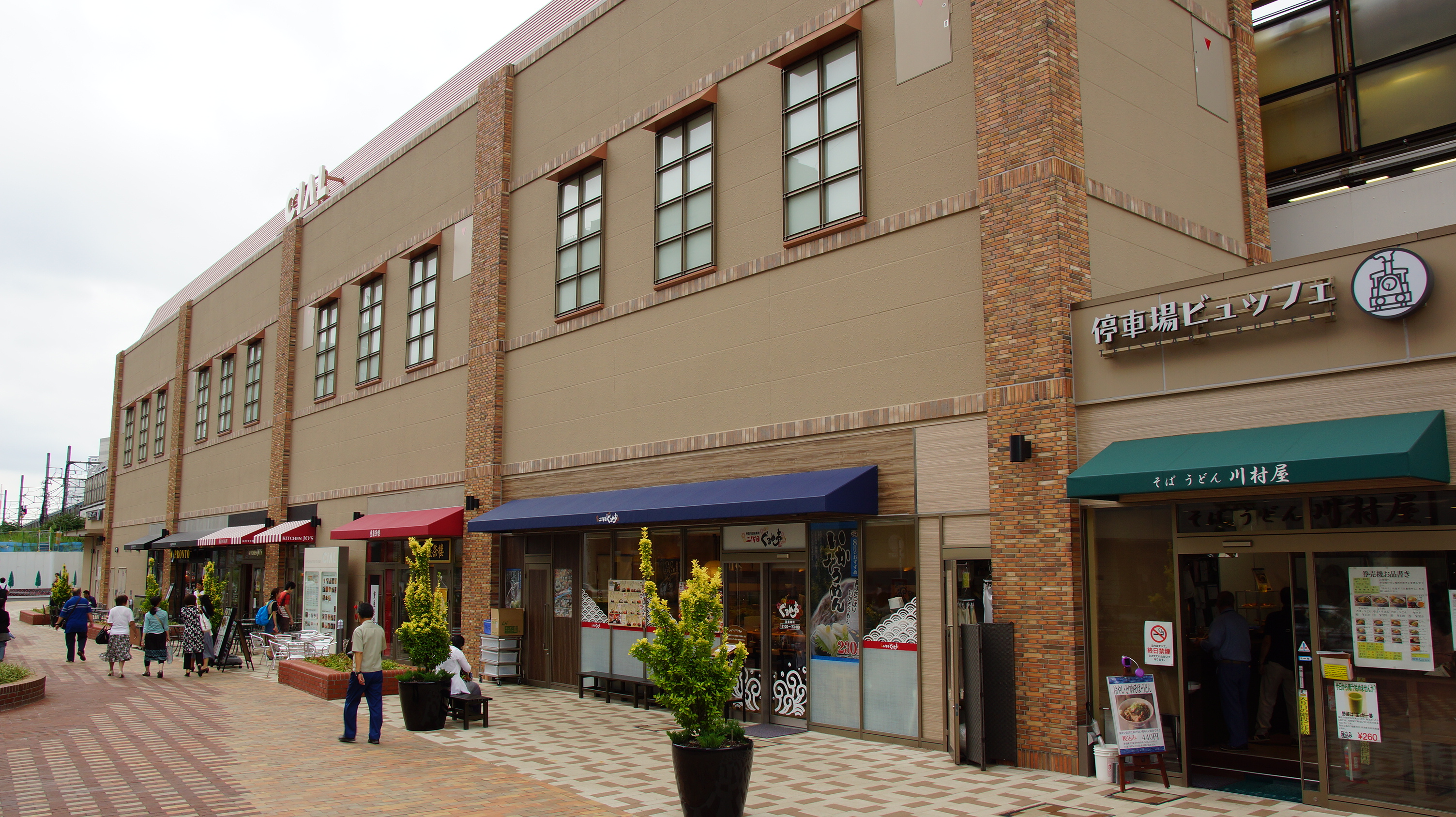 The west side of Sakuragicho Station on the Negishi Line